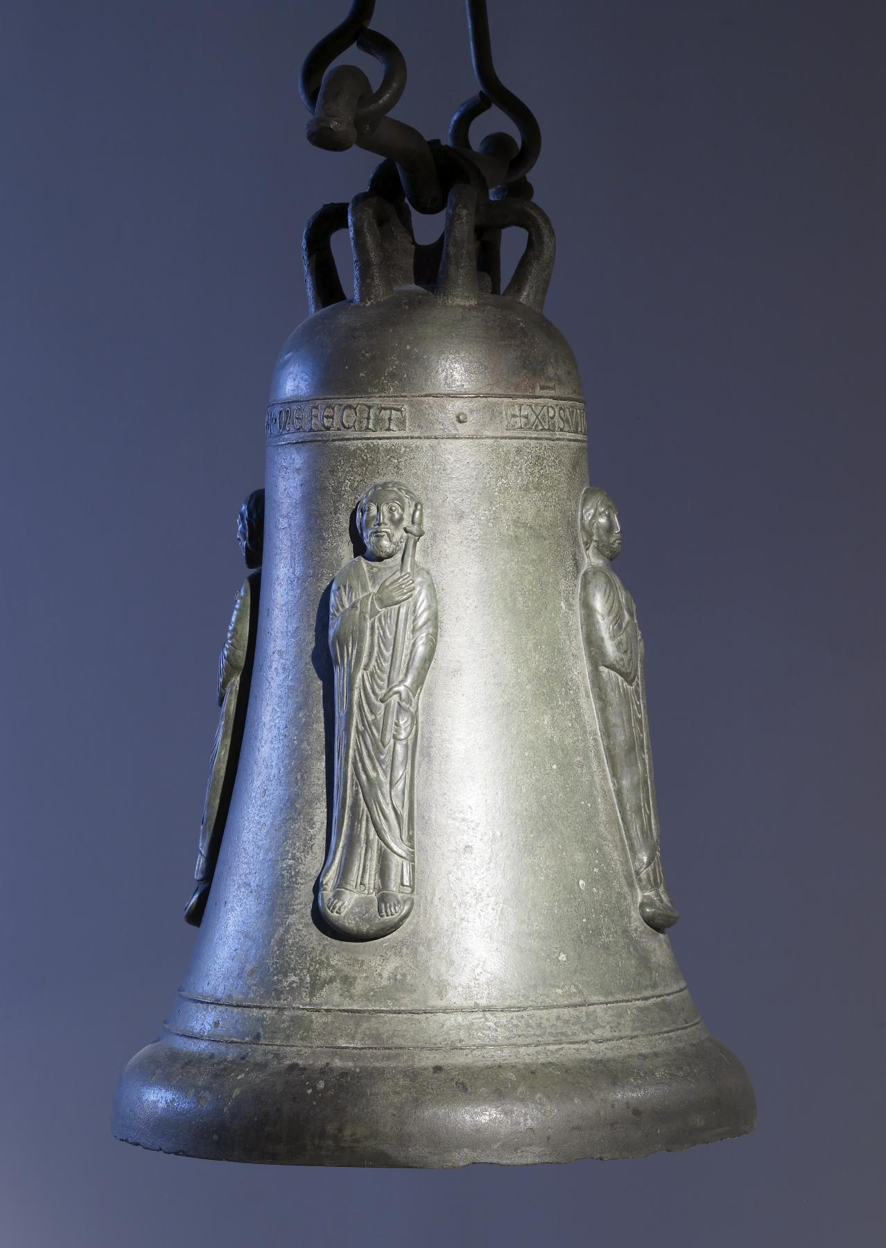 Bells were used to call the faithful to services throughout the Middle Ages. They also marked deaths, and were even believed to ward off storms and other dangers. Although many churches had bells, few medieval examples survive because they were often recast when they were damaged or melted down so that the metal could be reused. We do not have much information about the origin of this bell, but its long, narrow shape resembles several bells known to have been made in the mid-fifteenth century in Austria. The bell has four figures in relief: Saints Peter, Paul, John the Evangelist, and Thomas. The apostles are identified by their attributes: Peter holds the keys to heaven; Paul is shown with the sword of his execution; John the Evangelist holds his sacred writings; and Thomas holds a ruler, alluding to his role as patron of architects. The founder who made the bell has signed his work with the inscription P.K. ME FECIT (PK made me), and the bell is further inscribed with the words XPS VINCIT, XPS REGNAT, XPS I[M]P[ER]AT (Christ conquers, Christ reigns, Christ rules).